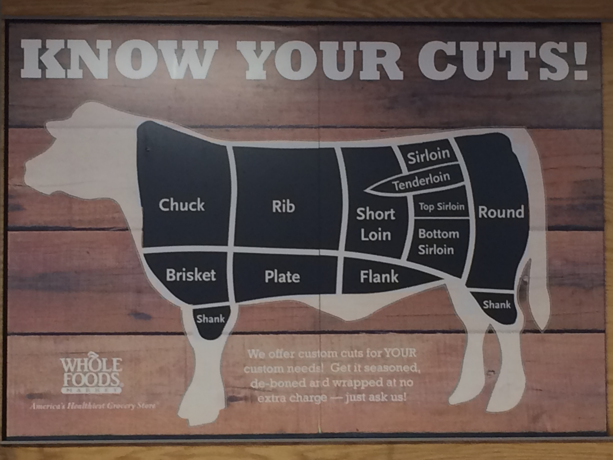 Cuts of Meat